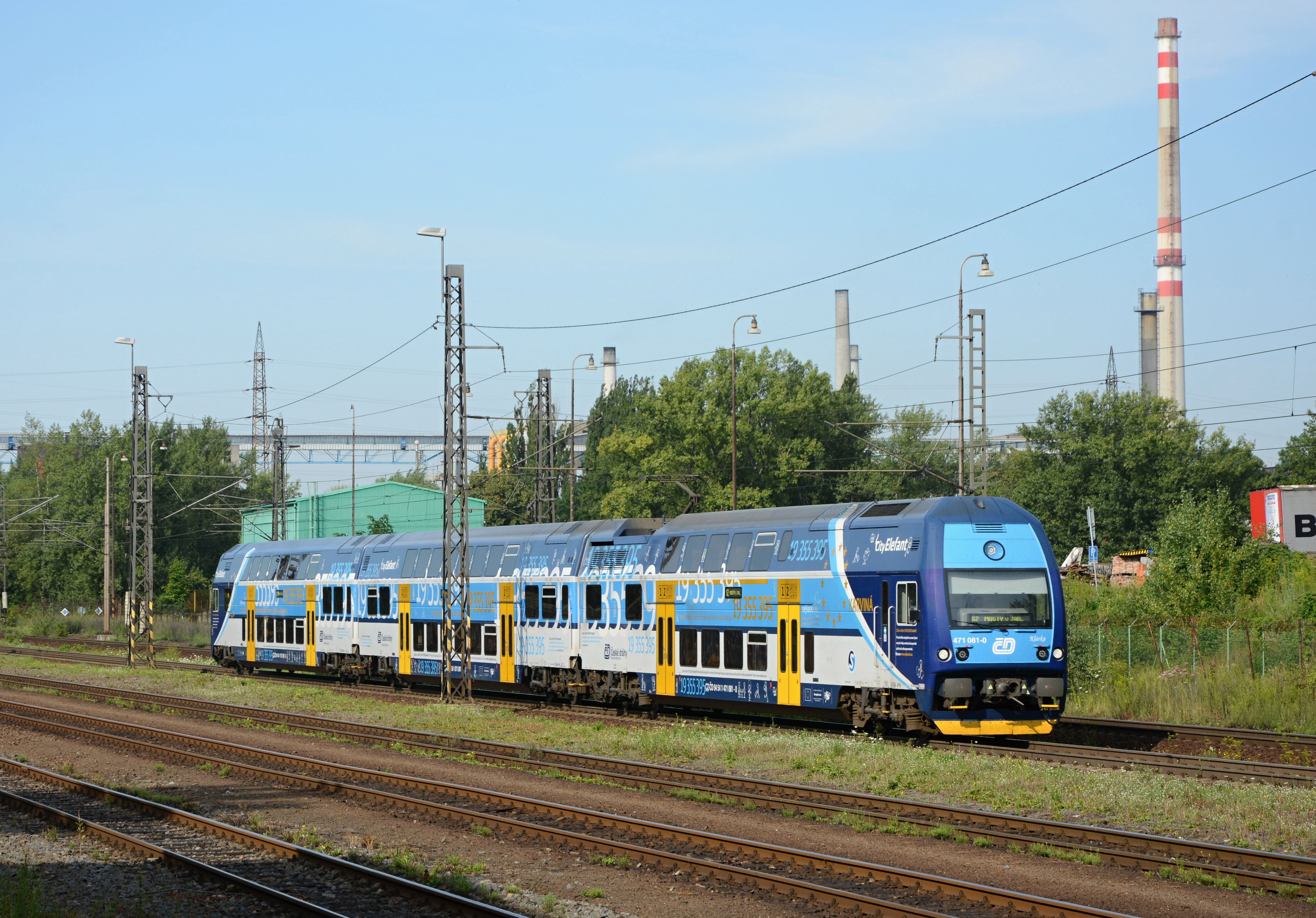 471.081 of České dráhy railway operator, line S2, train No. 2929 from Ostrava-Svinov to Mosty u Jablunkova; Ostrava hlavní nádraží (former Ostrava-Hrušov), the Czech Republic